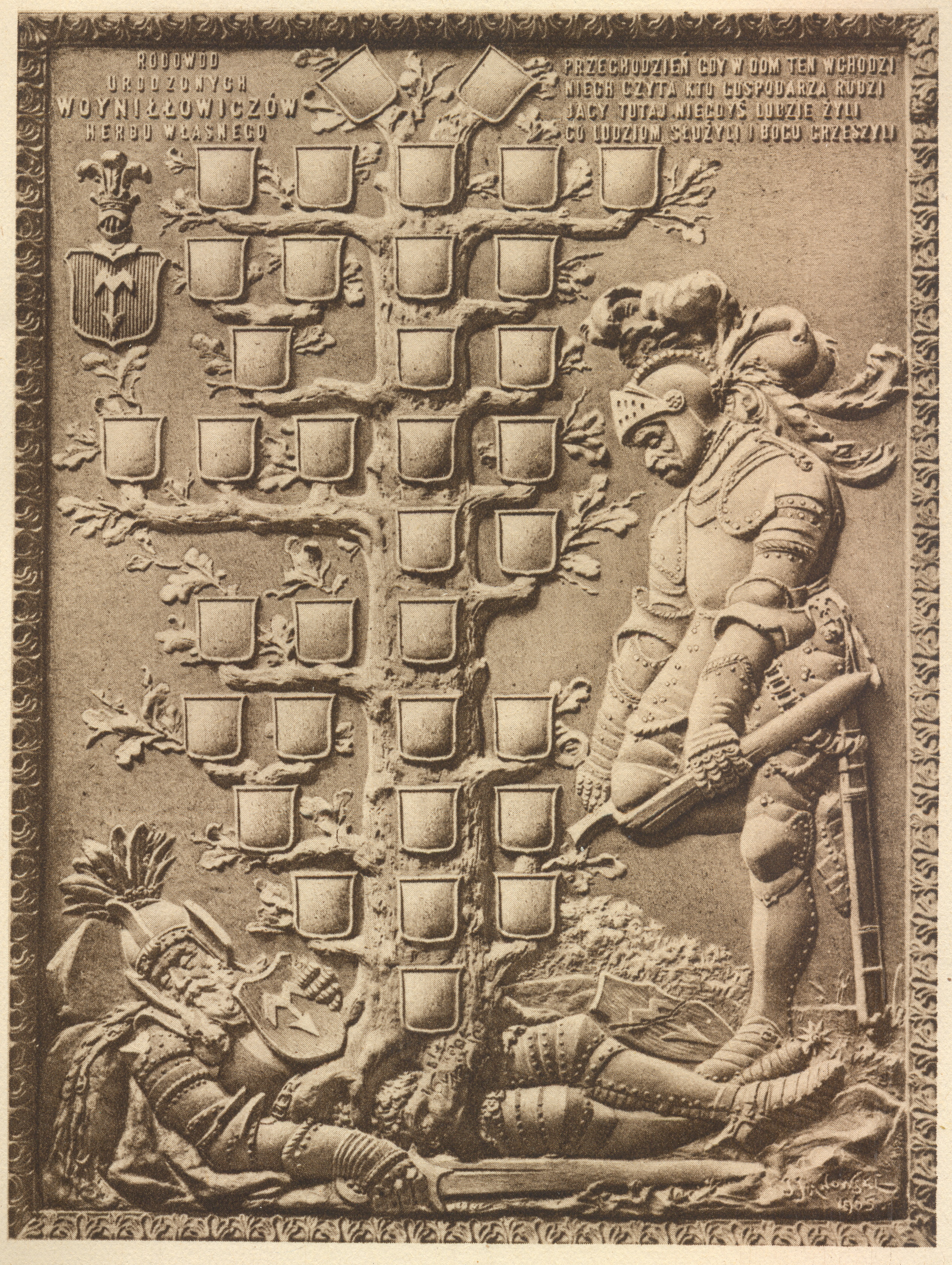 Edward Woynillowicz's (1847-1928) family tree